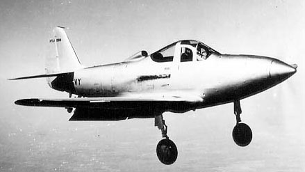 Description: Bell XFL-1 Airabonita, Navy version. (U.S. Air Force photo)